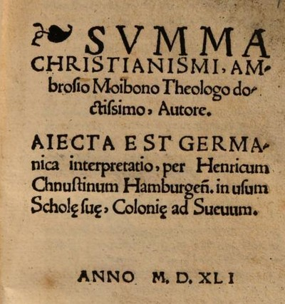 Ambrosius Moibanus (1494-1554) Svmma Christianismi,1541